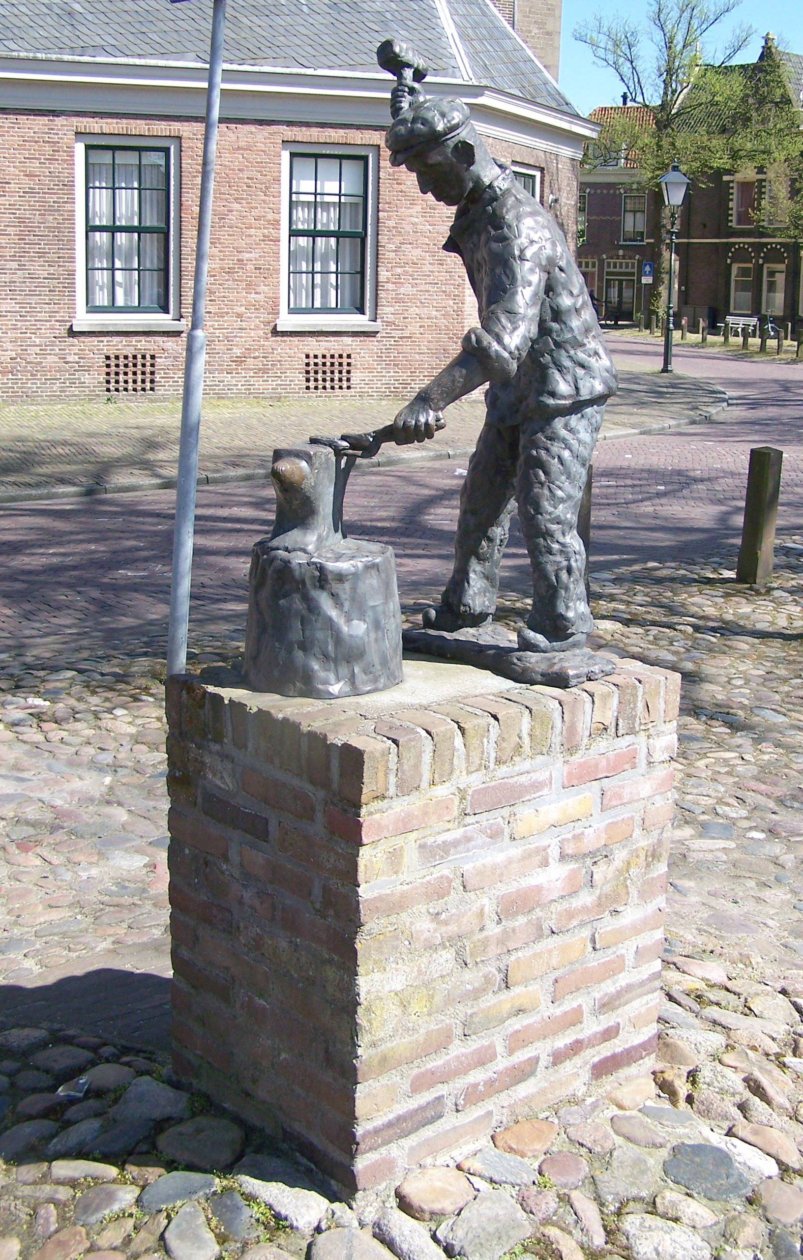 Sculpture of a blacksmith by Klaas van den Berg. In memory of Jan Hengeveld. Placed in 1987 at the Muntplein in Kampen.